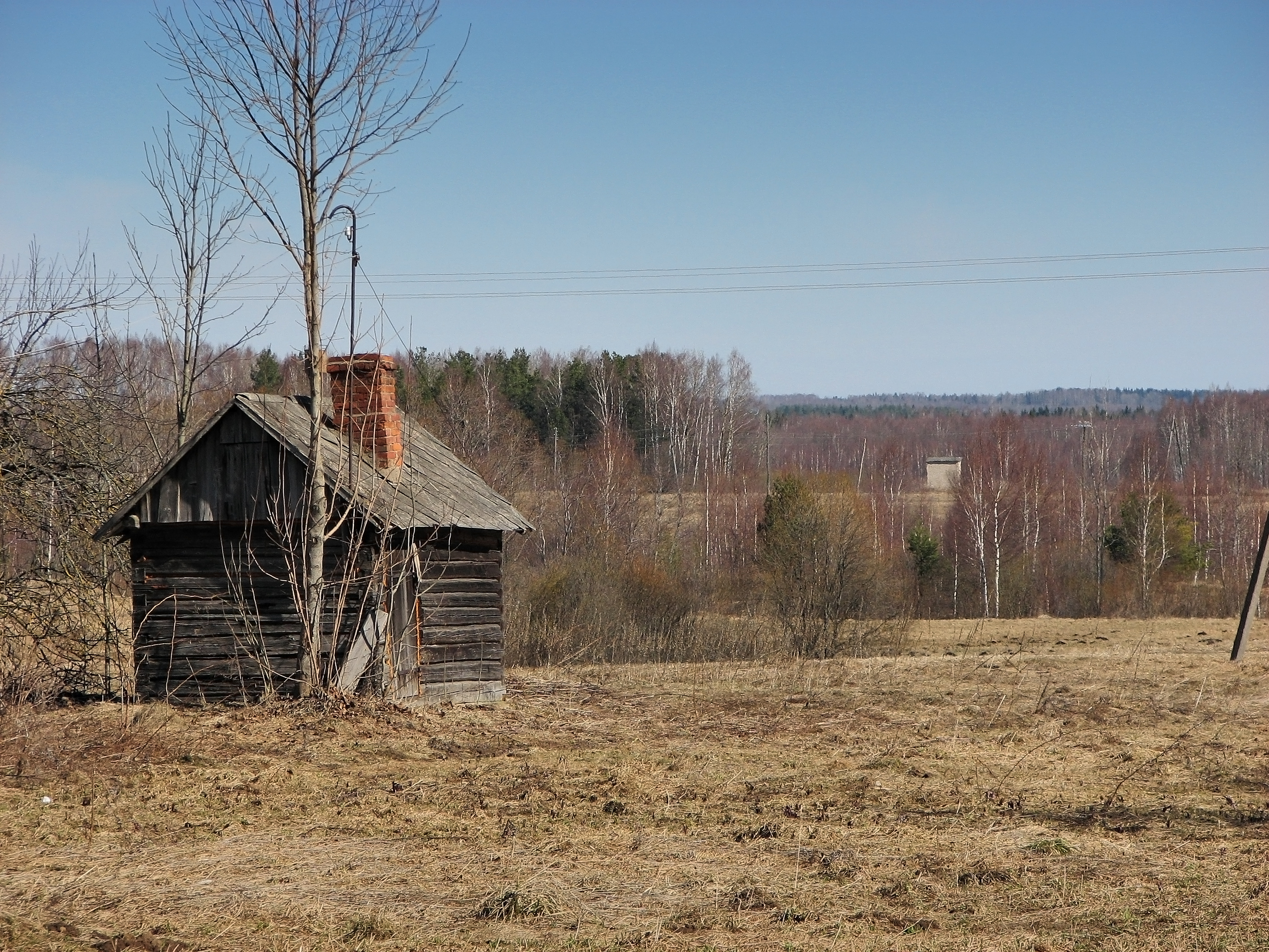 Dubna Parish, Latvia